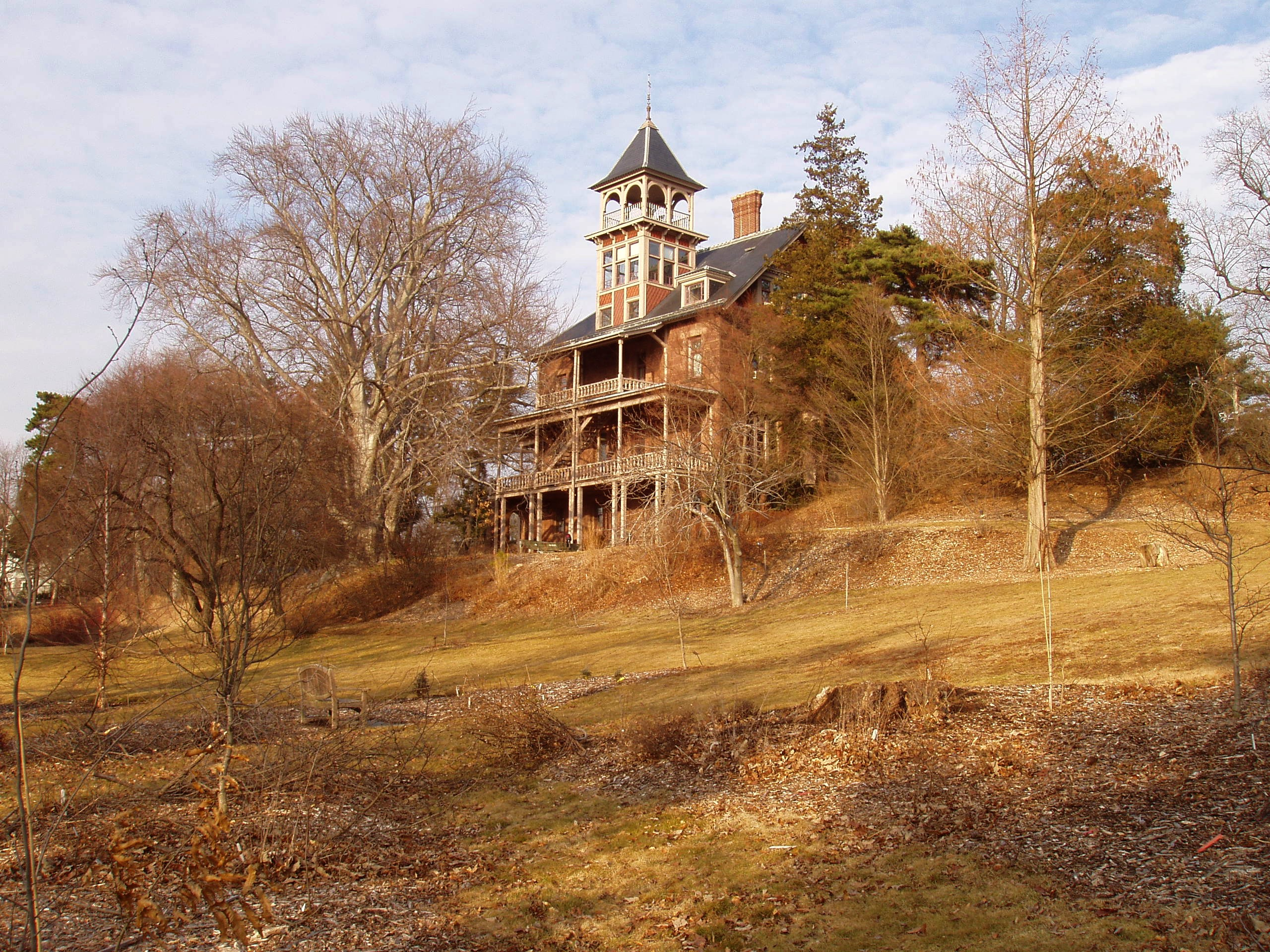 General view of Marsh Botanical Garden, Yale University, New Haven, Connecticut, USA.